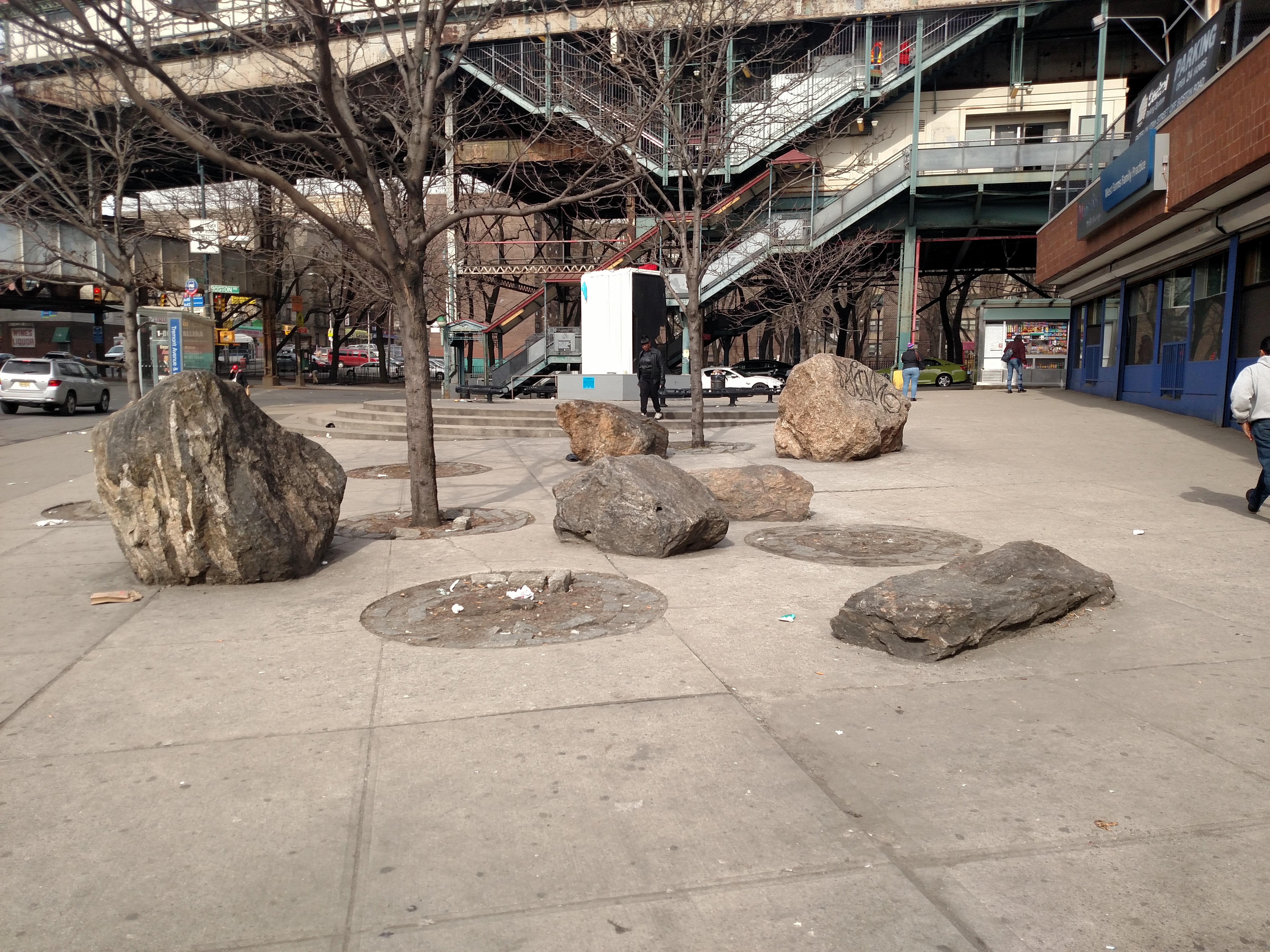 A day trip to the end of the 2 line at 241 St and Mount Vernon in search of stained glass, graffiti and old traffic lights!